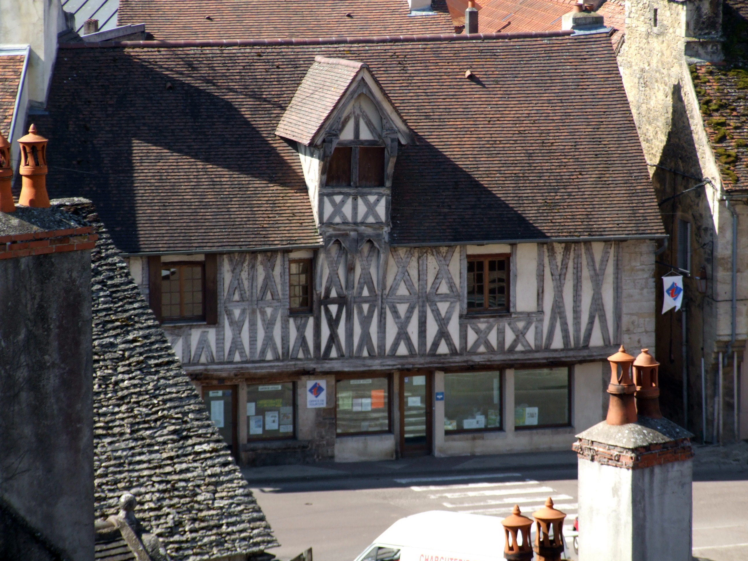 Vitteaux, Burgundy, FRANCE